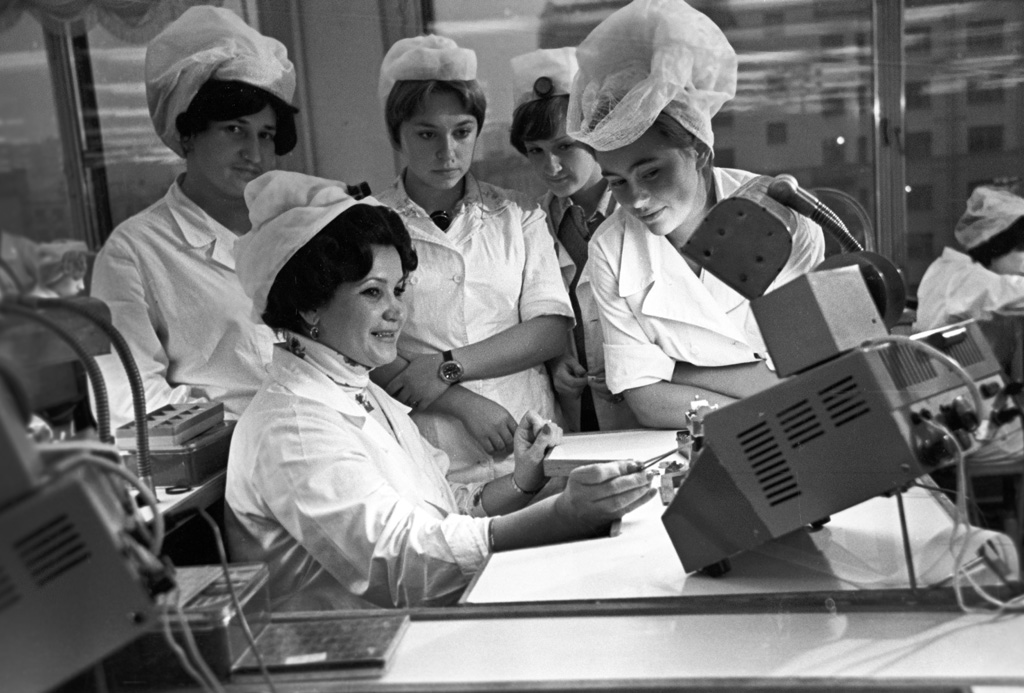 “2nd Watch-Making Factory Slava”. Assembly worker T.Sizova, sitting, a State Prize winner, with fellow workers at the 2nd Watch-Making Factory Slava.